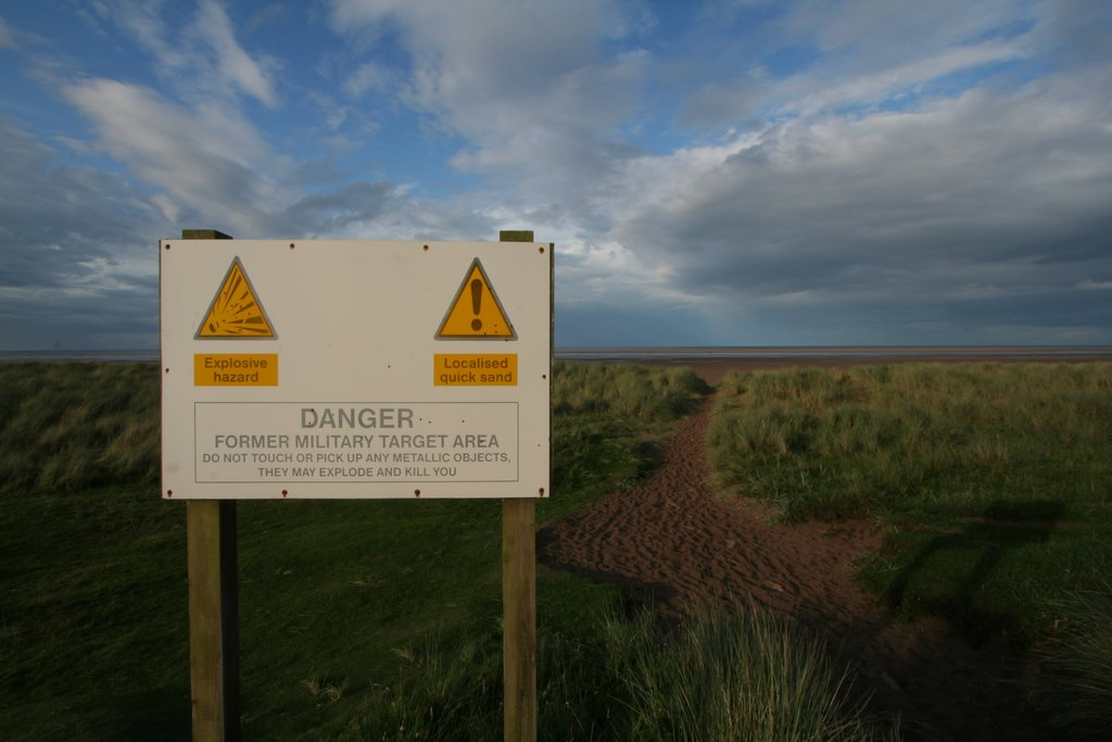 Warning Sign, Goswick Sands This sign warns of unexploded ordnance on the former bombing range at Goswick Sands.